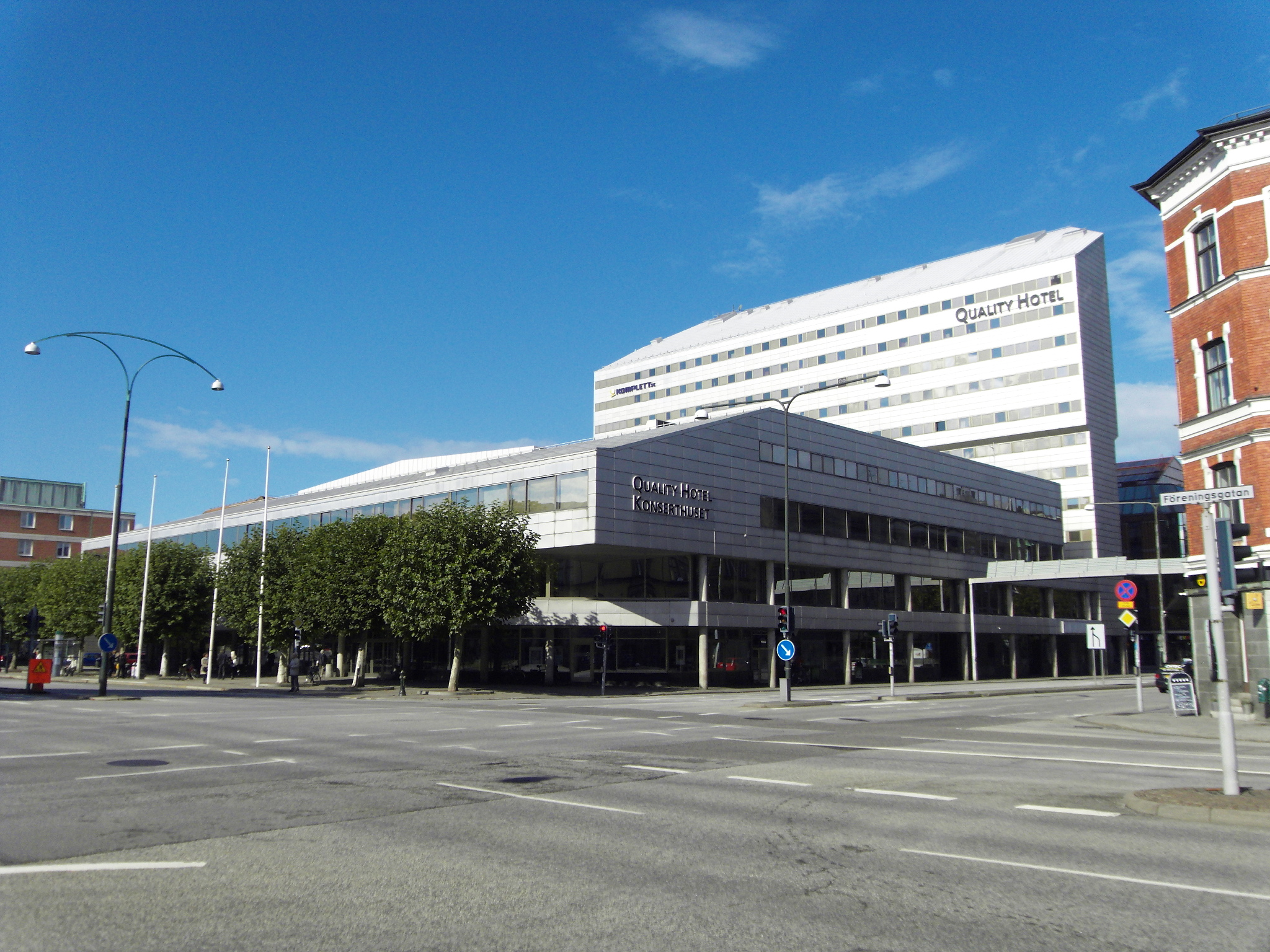 This is the hotel Quality Hotel Concerthouse (Swedish: Quality Hotel Konserthuset) in the city of Malmo. Photographed 19 September 2013.